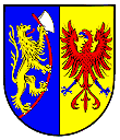 Coat of arms of Döggingen in Bräunlingen